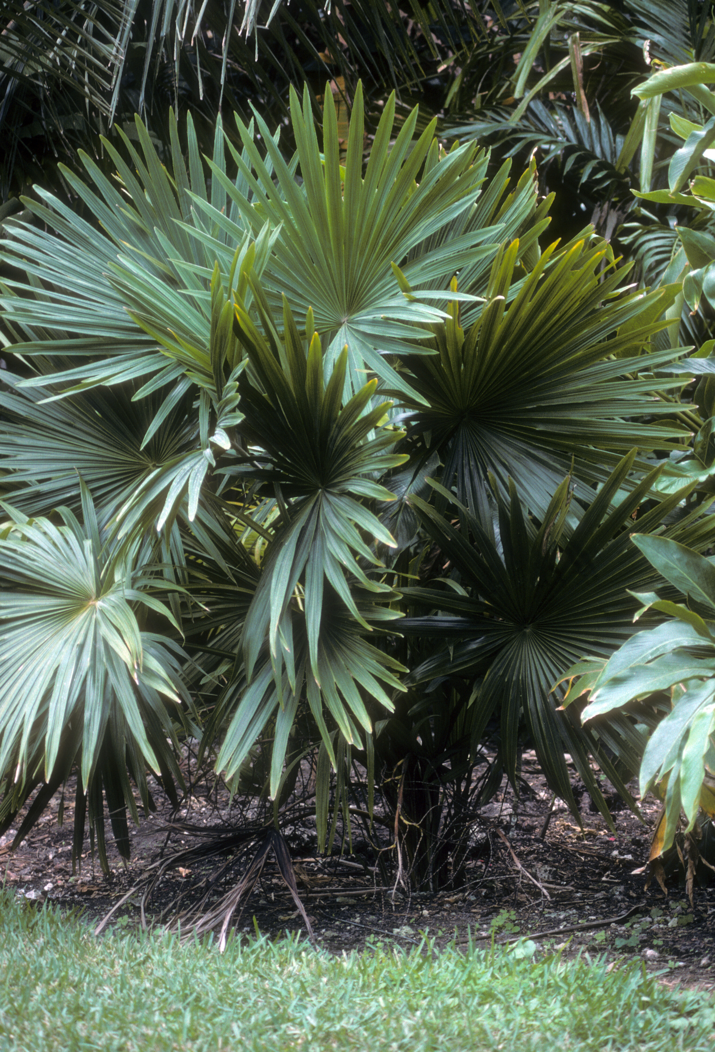 Chuniophoenix hainanensis, Fairchild Tropical Botanic Garden, Miami, Florida, USA. Oct. 1997.